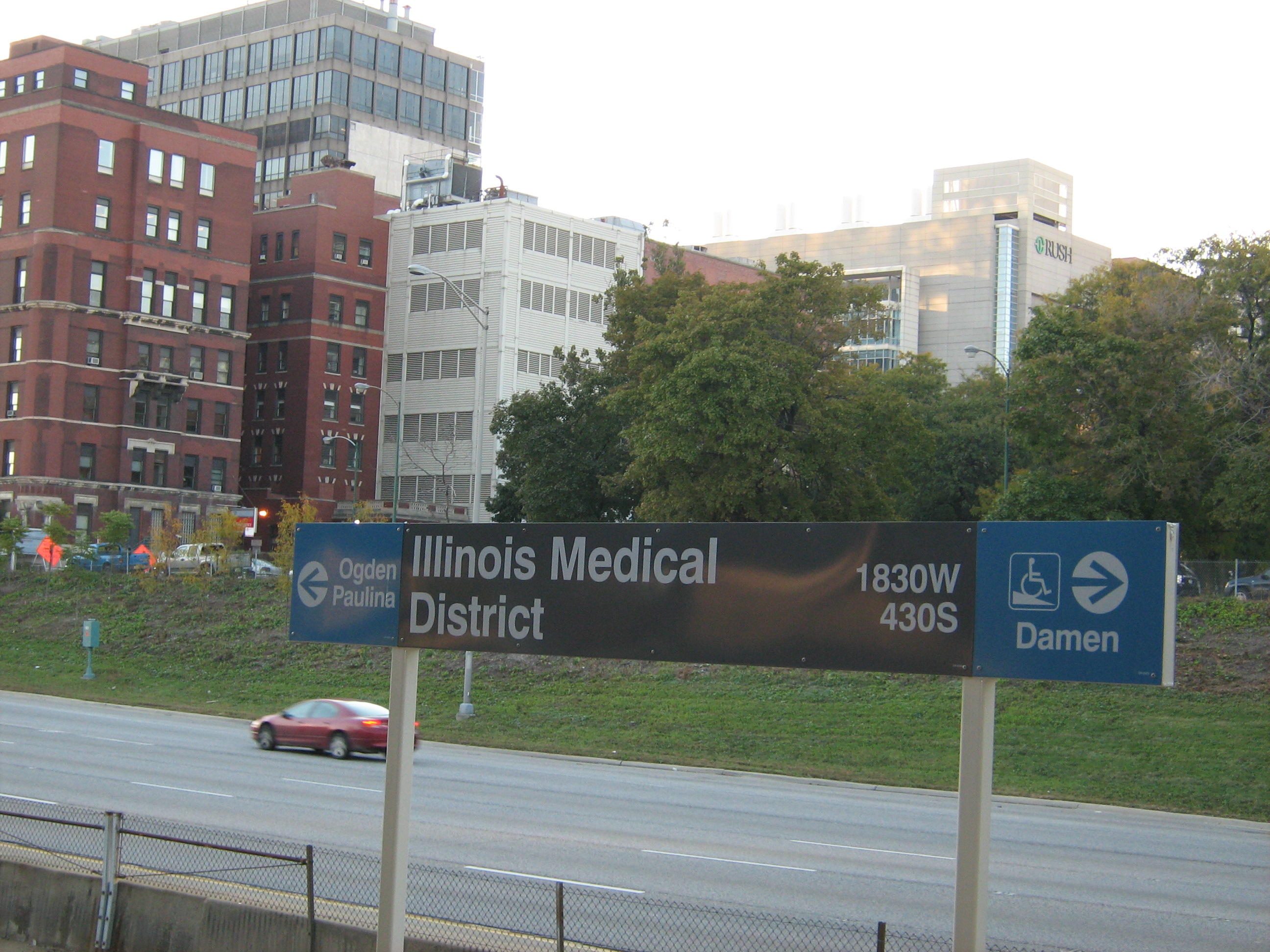 View of eastbound Dwight D. Eisenhower Expressway and Rush University Medical Center from the platform of Illinois Medical District on the Congress Branch of the CTA Blue Line between the West Ogden Avenue and South Paulina Street overpasses.